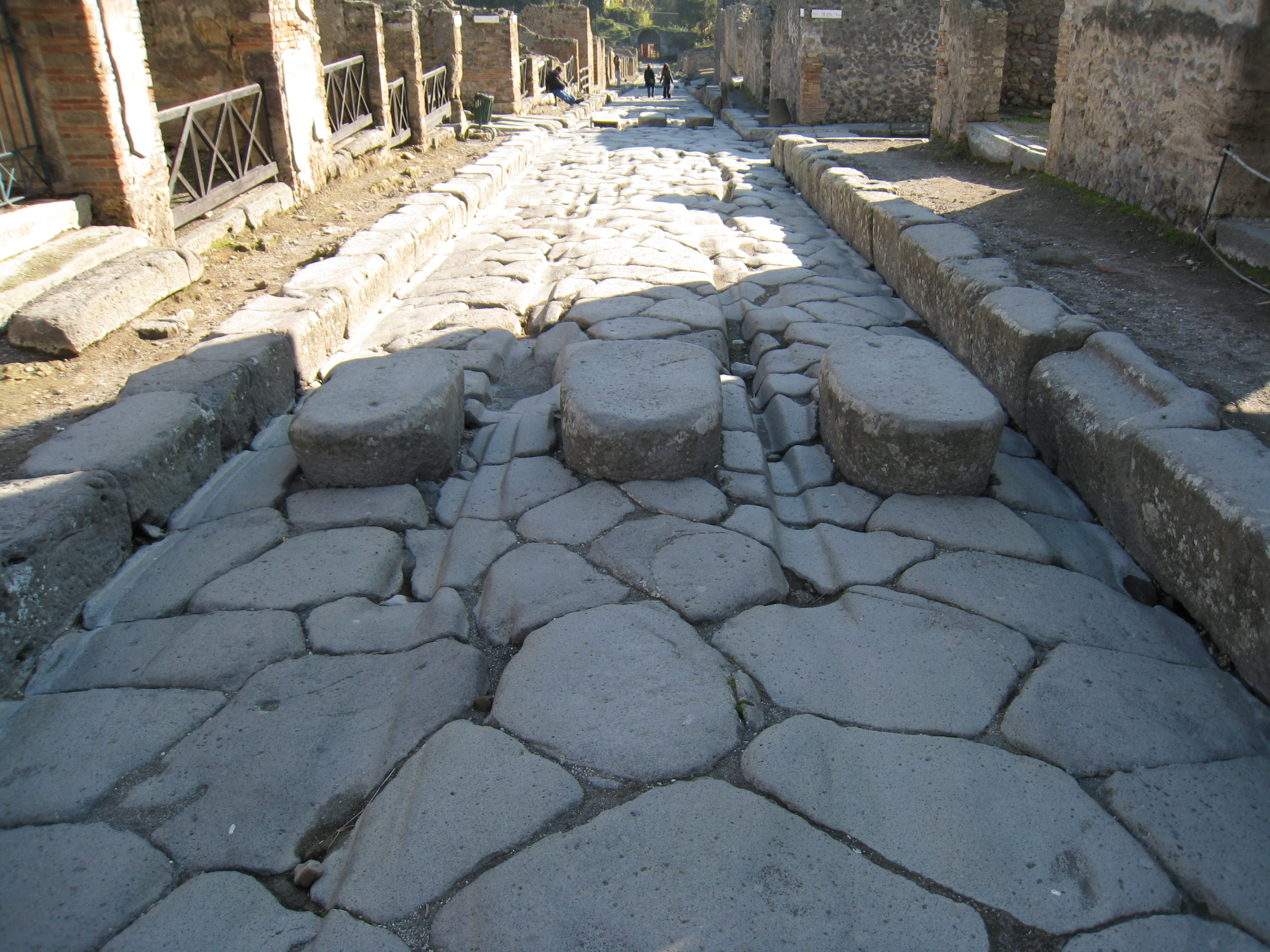 Wheel ruts on a street corner in the ruins at Pompeii, Italy. The raised stones are a crosswalk for pedestrians, to keep feet up out of the street, which doubled as a sewer. Cart wheels ran between the raised stones. Visible on either side in the background are the remains of shops and offices.